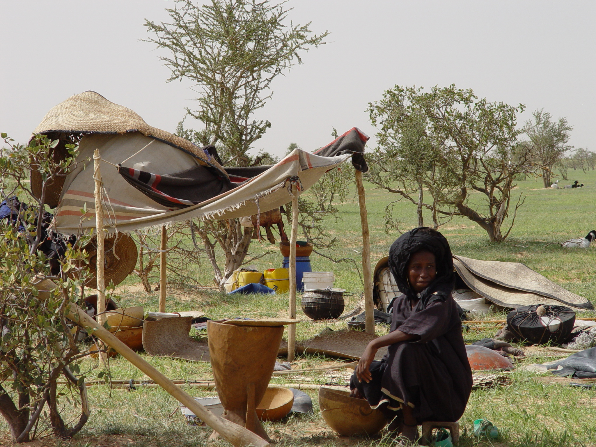 A Peuhl woman sits at her camp in the surroundings of Zinder, Niger, in Western Africa.